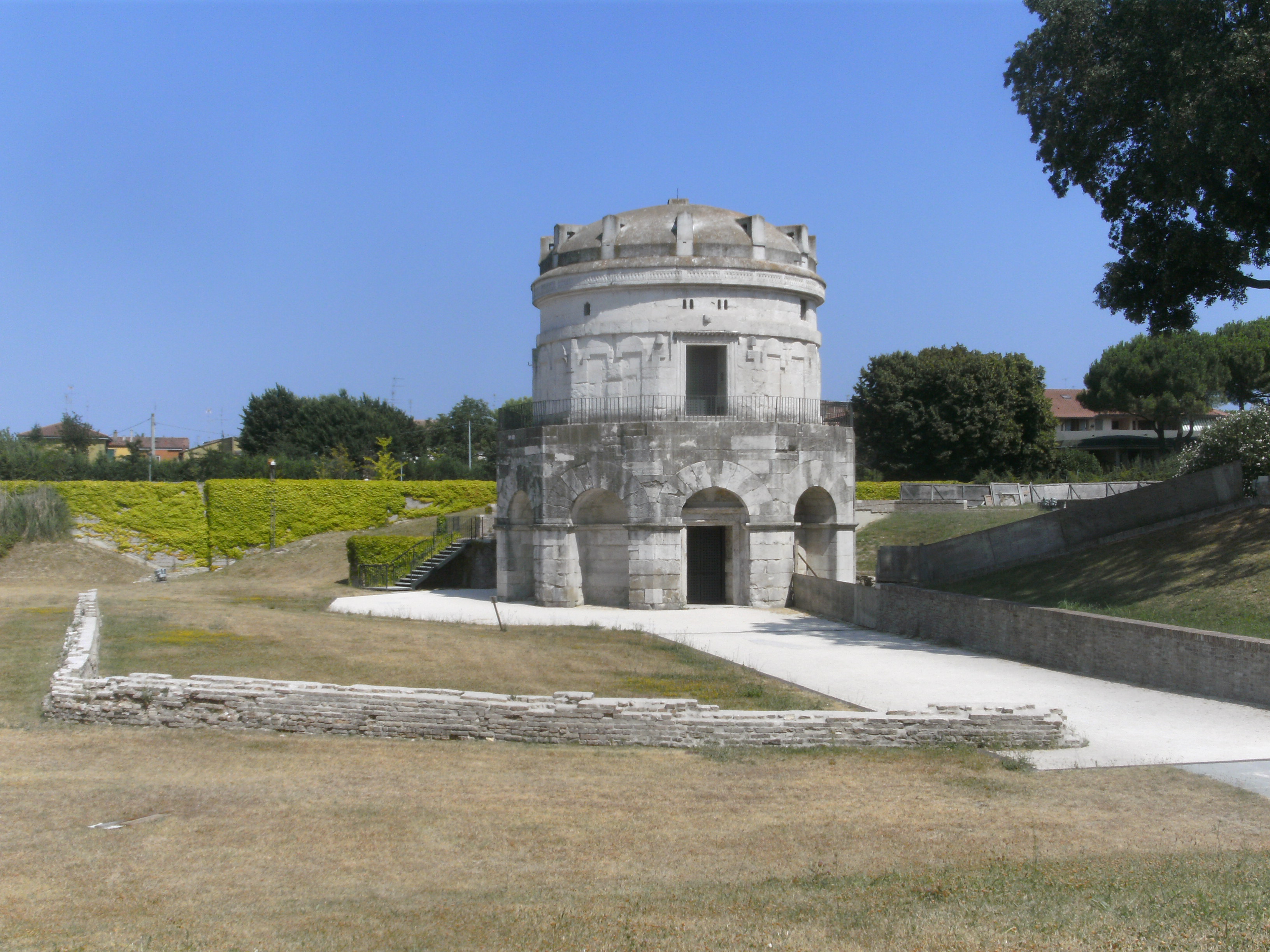 The mausoleum with the remains of an ancient wall which also is shown on old paintings and engravings.